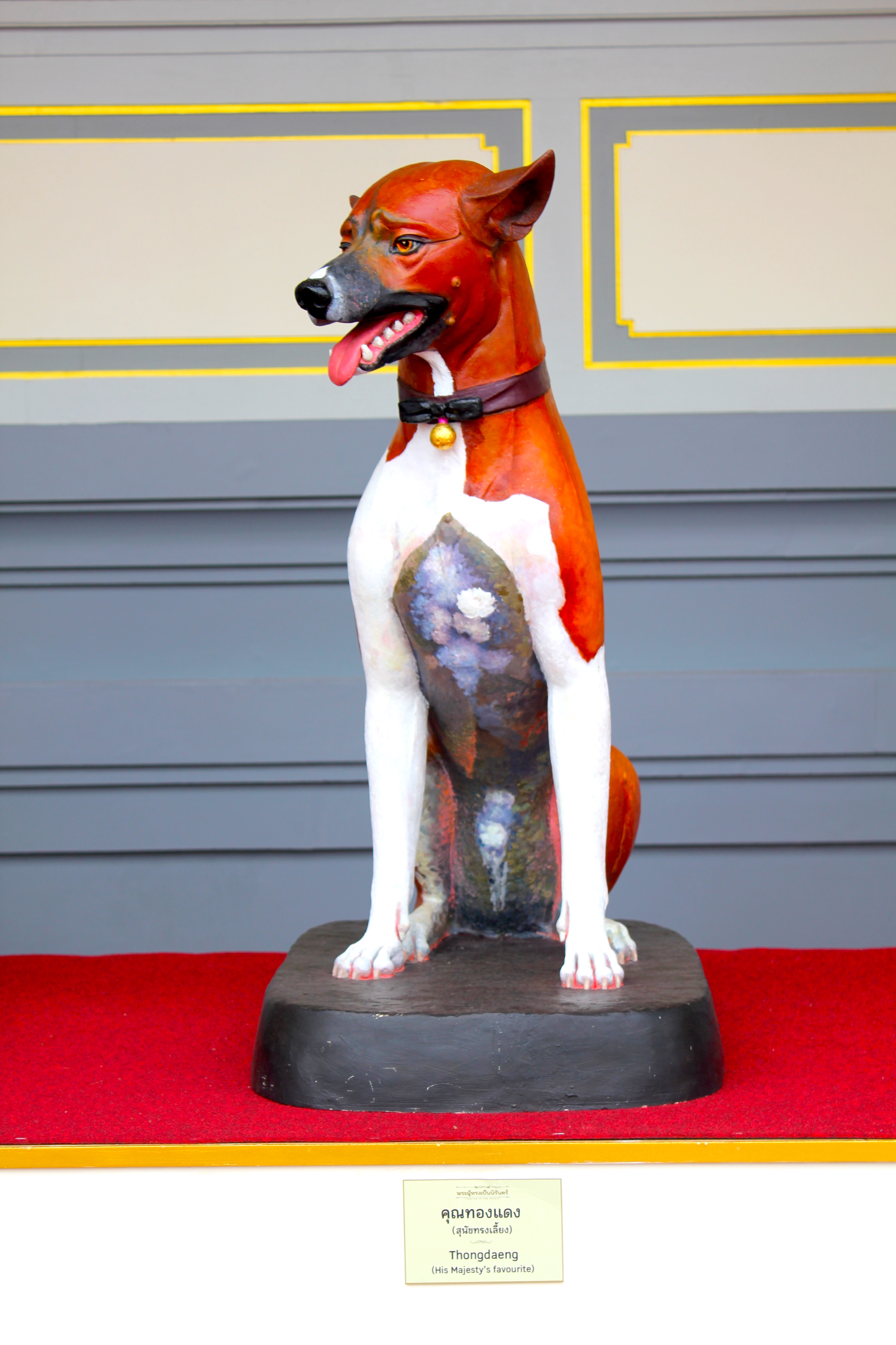 รูปปั้นสุนัขทรงเลี้ยง คุณทองแดง คุณโจโฉ ในพระราชพิธีถวายพระเพลิงพระบรมศพ ในหลวง ร.๙